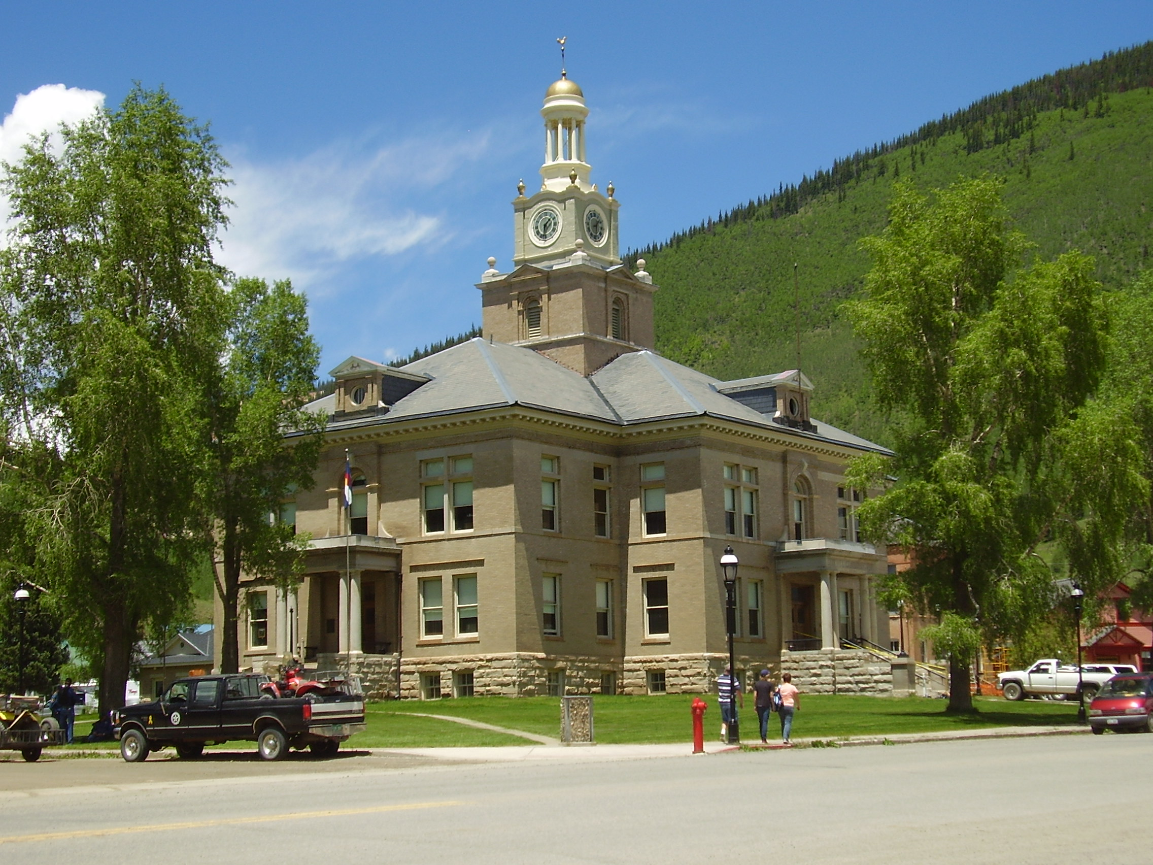 San Juan County Courthouse